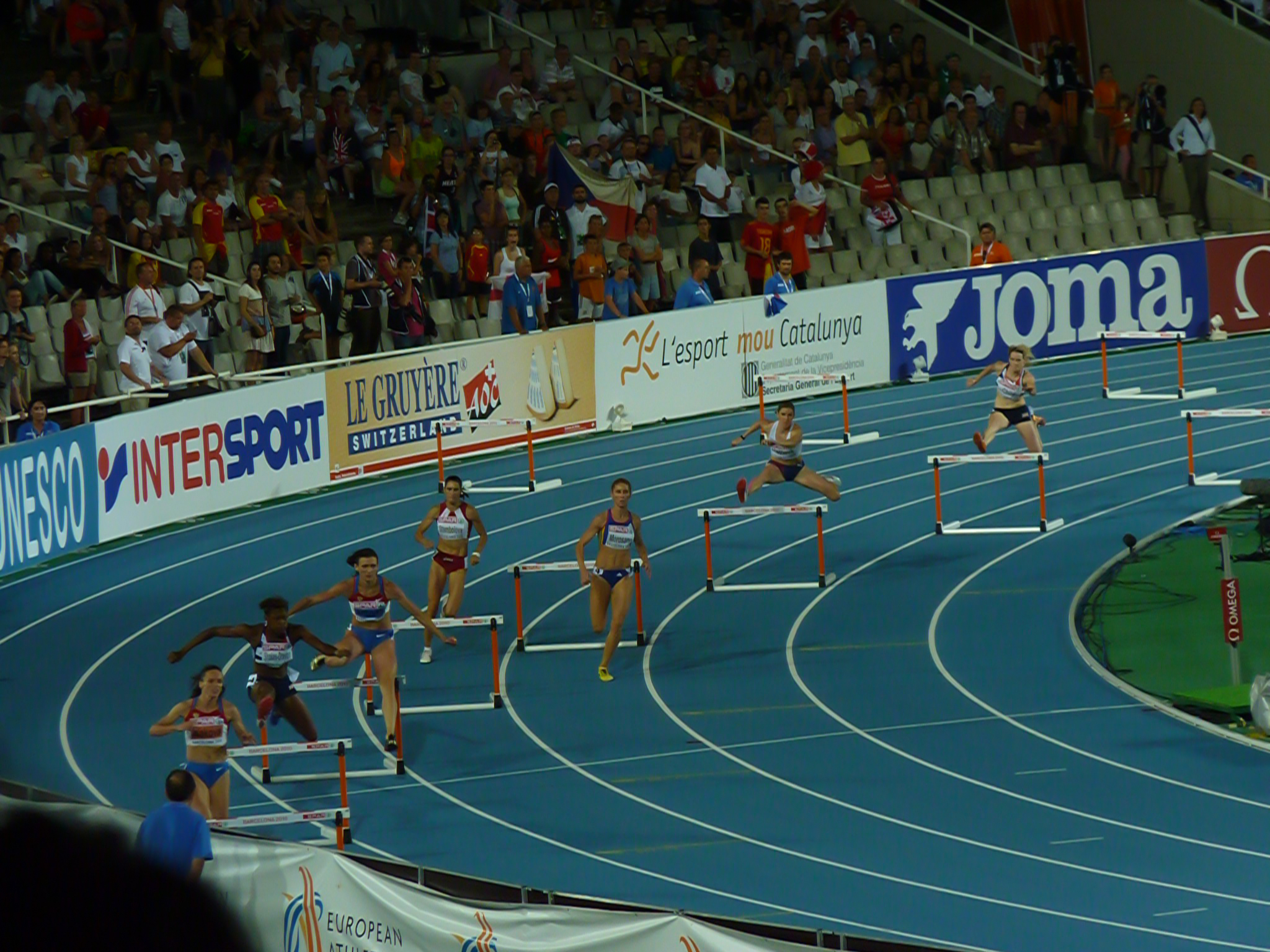 2010 European Championships in Athletics - Women's 400 metres hurdles - final. Yevgeniya Isakova, Perri Shakes-Drayton, Natalya Antyukh, Vania Stambolova, Angela Moroşanu, Zuzana Hejnová, Eilidh Child